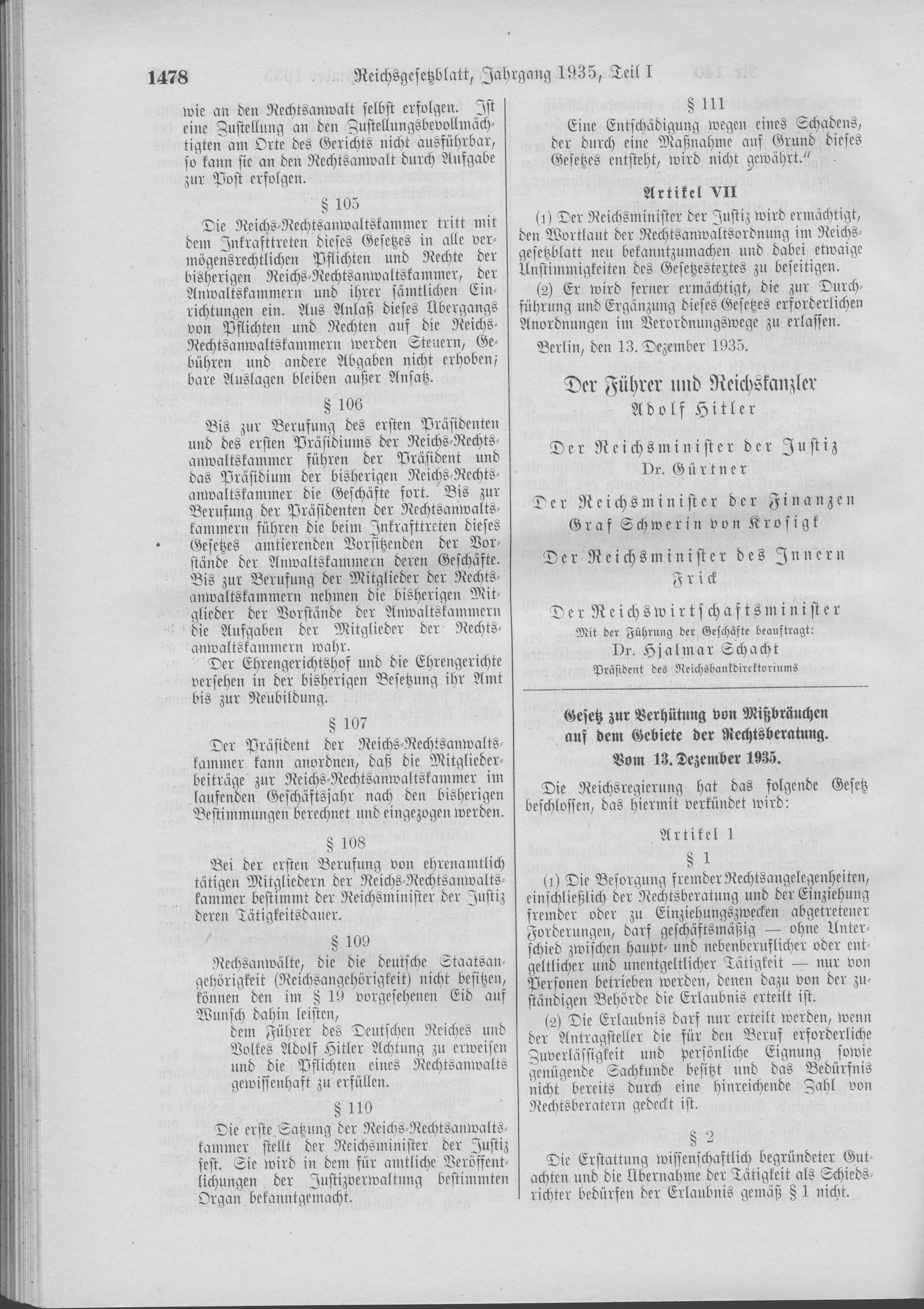 Scan from the Imperial Law Gazette of Germany, 1935, part 1